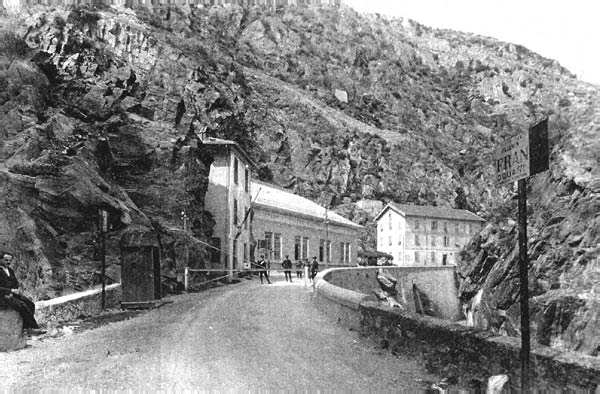 Former border between San Dalmazzo di Tenda (Italy) now Saint-Dalmas-de-Tende (France) and Fontan (France) in 1920s. Km 133 of SS 20